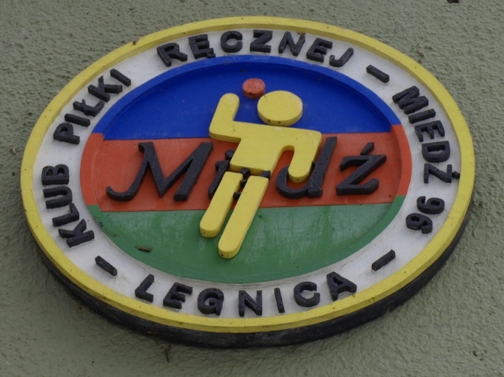 Handball Polish Club Miedz Legnica_logo